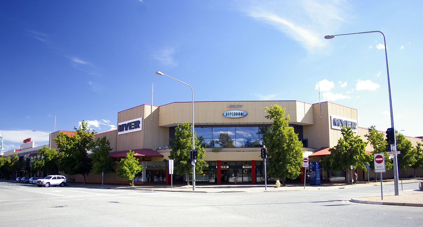 Tuggeranong Hyperdome in Tuggeranong Town Centre.